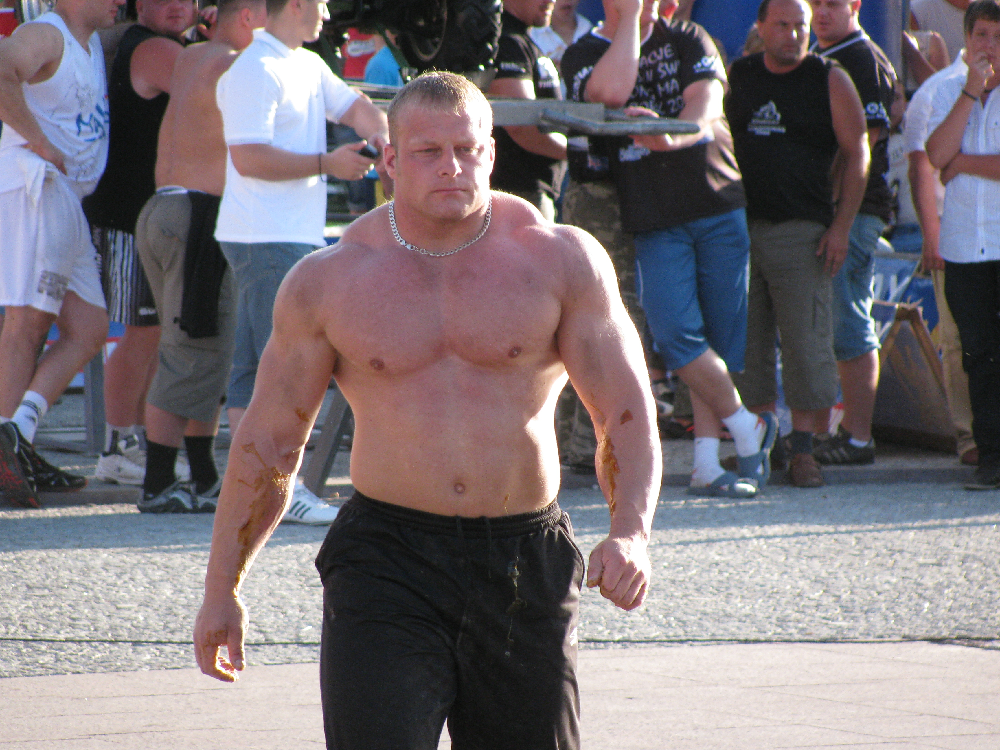 Darren Sadler - a strength athlete from England during Giants Live competition, Poland, Malbork City, August 1st 2009